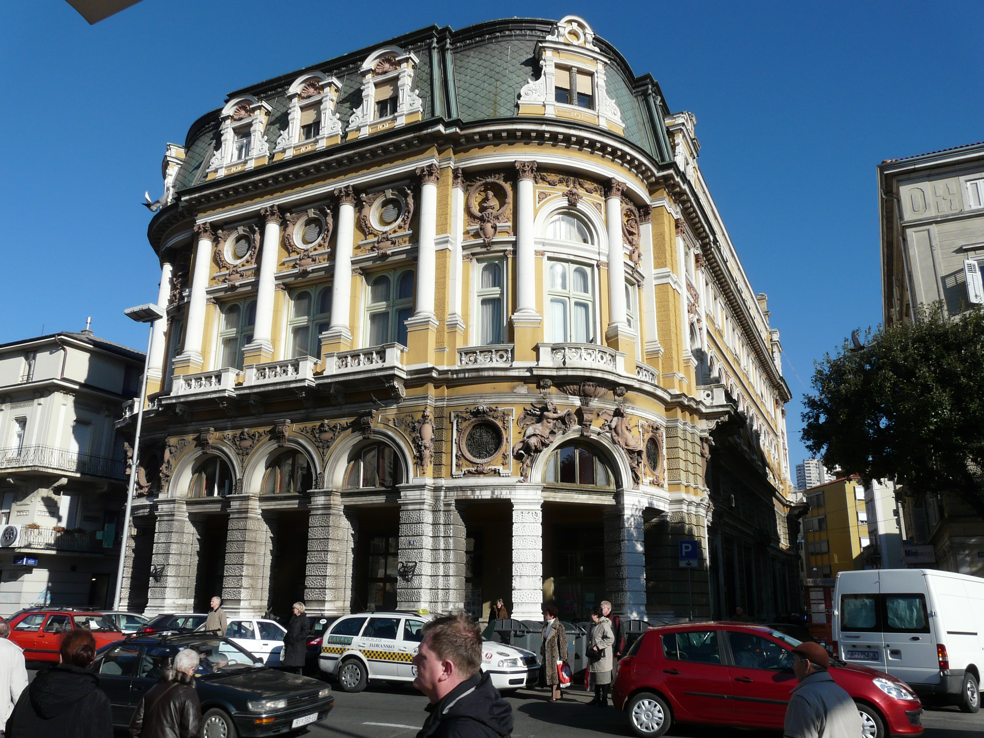 Palace Modello in Rijeka (City Library), Croatia.